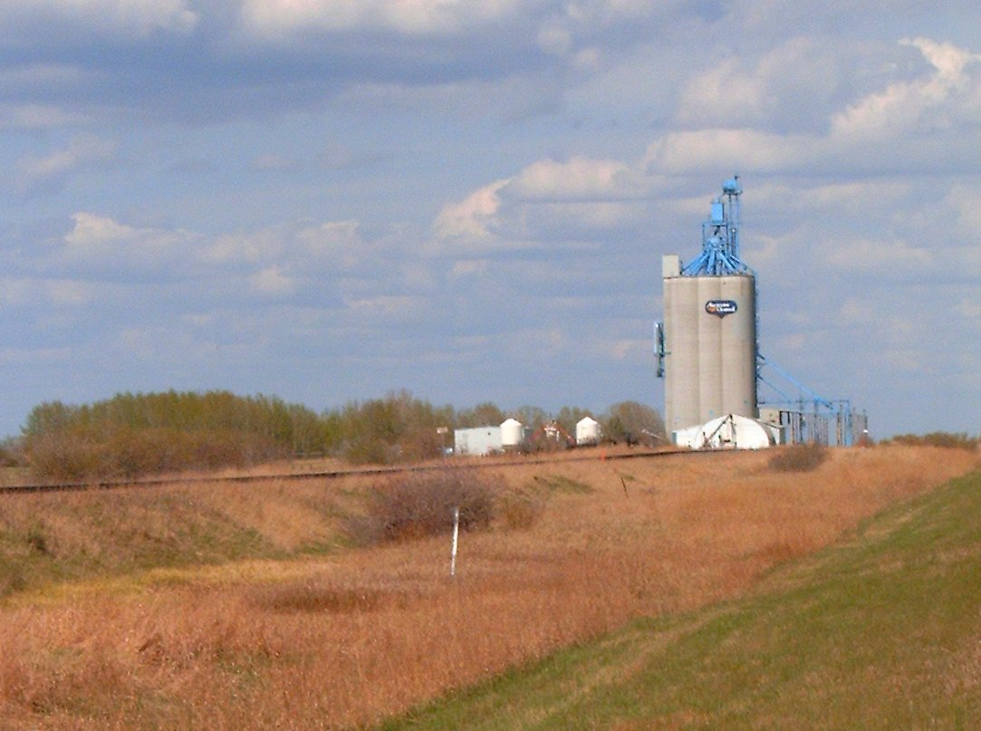 Cropped version of File:Alberta modern cement grain elevator 034.jpg, taken by user:Glenlarson